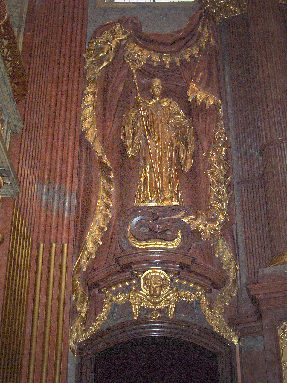 St. Benedict altar (detail: statue of St. Berthold von Garsten); church of the Melk Abbey, Austria